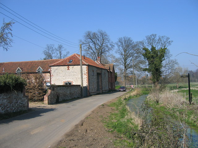 Birthplace of Admiral Lord Nelson, Burnham Thorpe There is a bronze plaque on the wall near the round mirror which states: The Old Rectory in which the Admiral was born stood twenty yards back from this wall. It was pulled down in 1803.